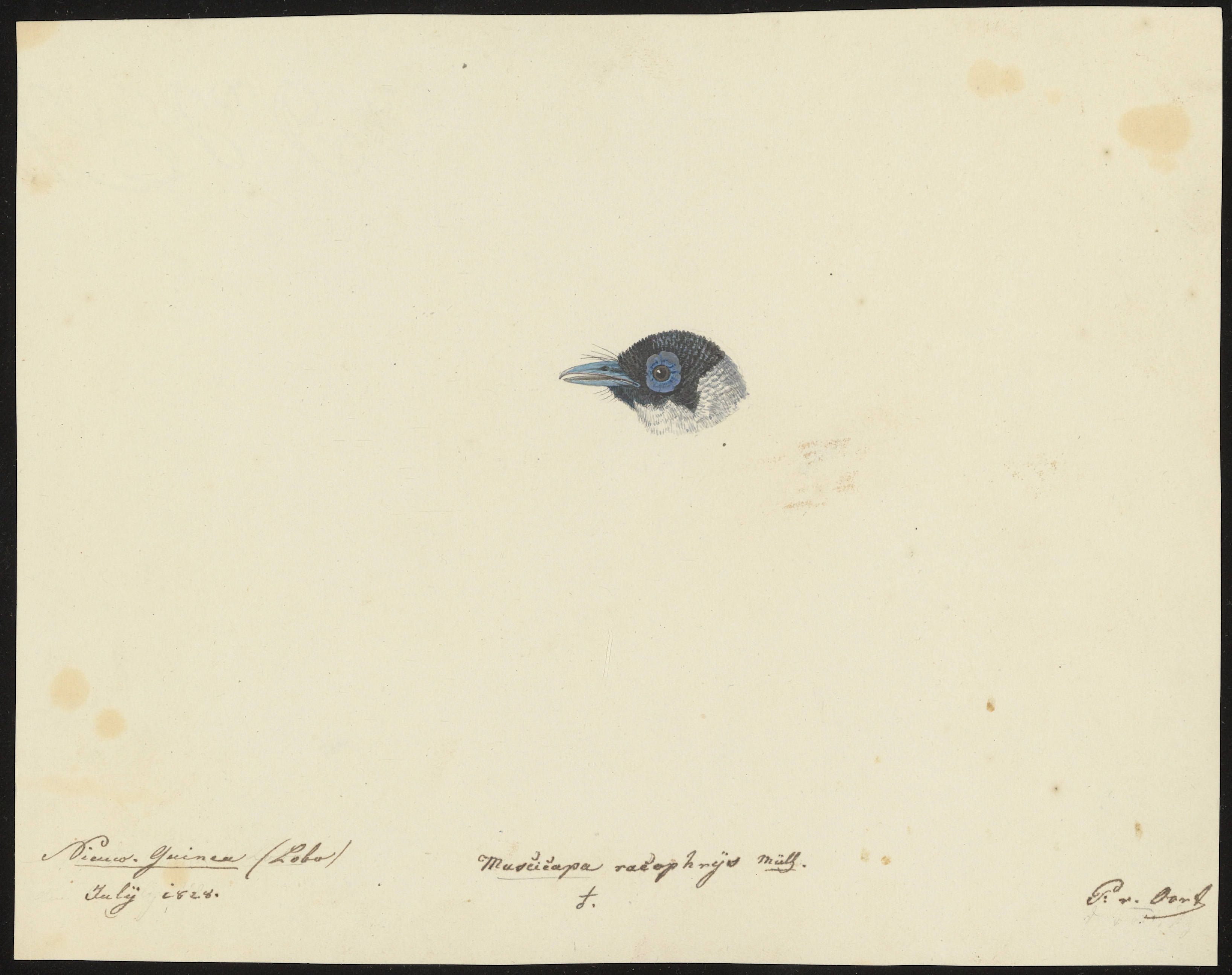 Drawing of a bird head